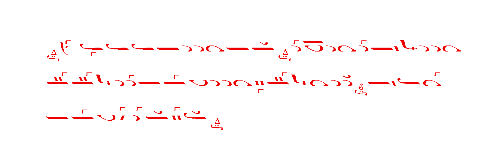 Byzantine Neumes 1.